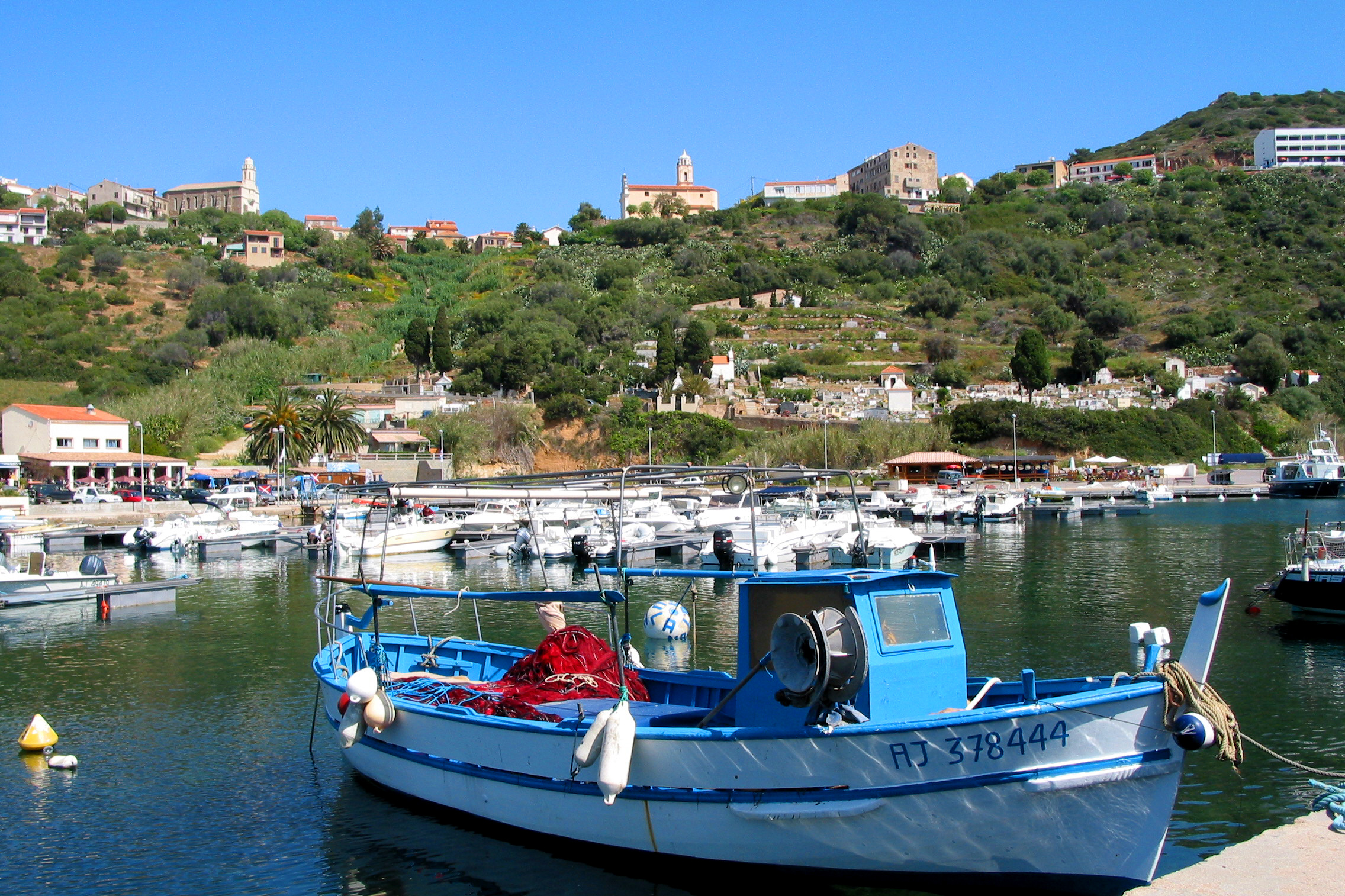 Cargèse (Corse-du-Sud) - France, the port. Walon: Cardjèse (Corse-do-Sud) - France, li pôrt.